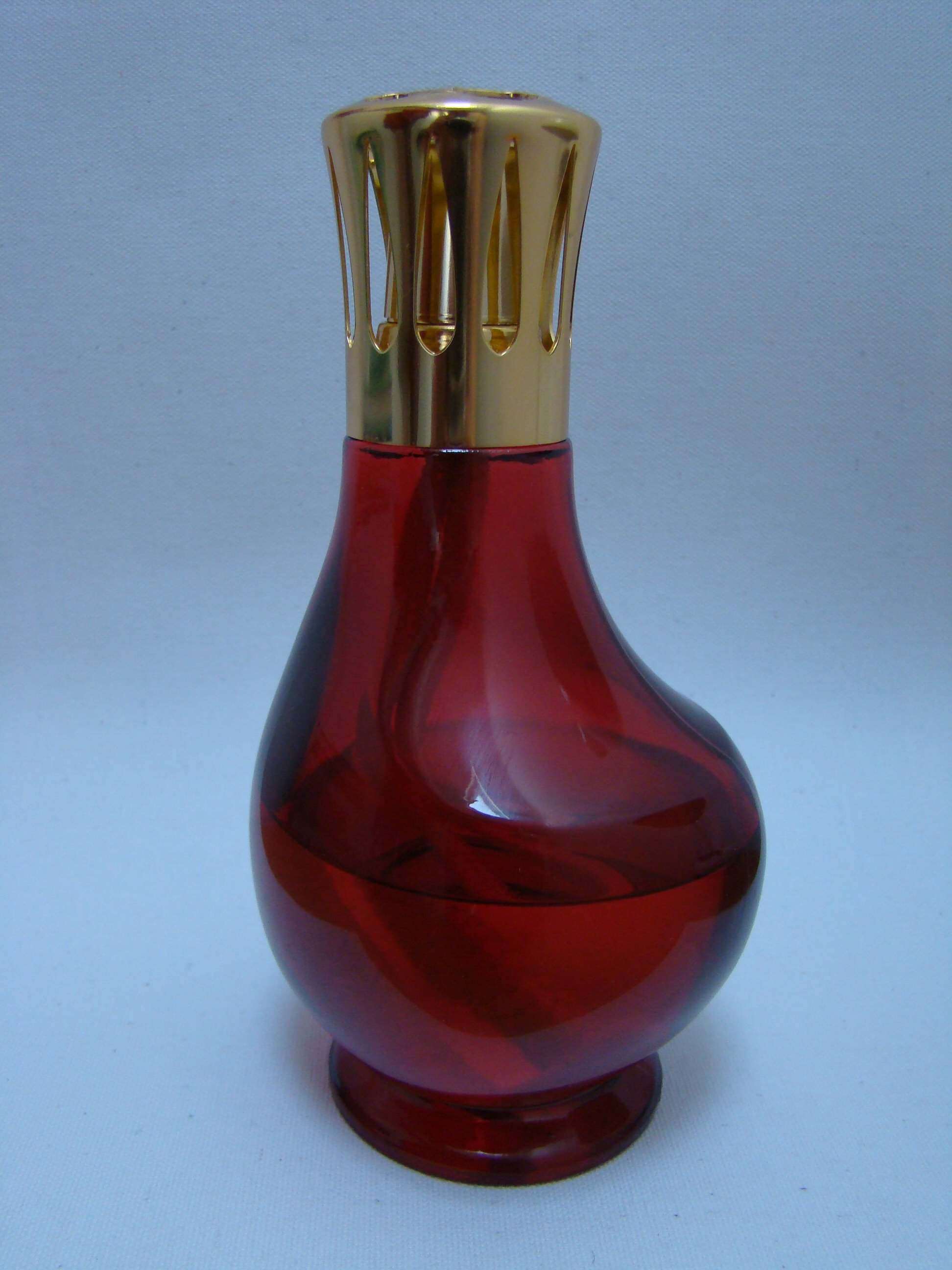 Lampe Berger